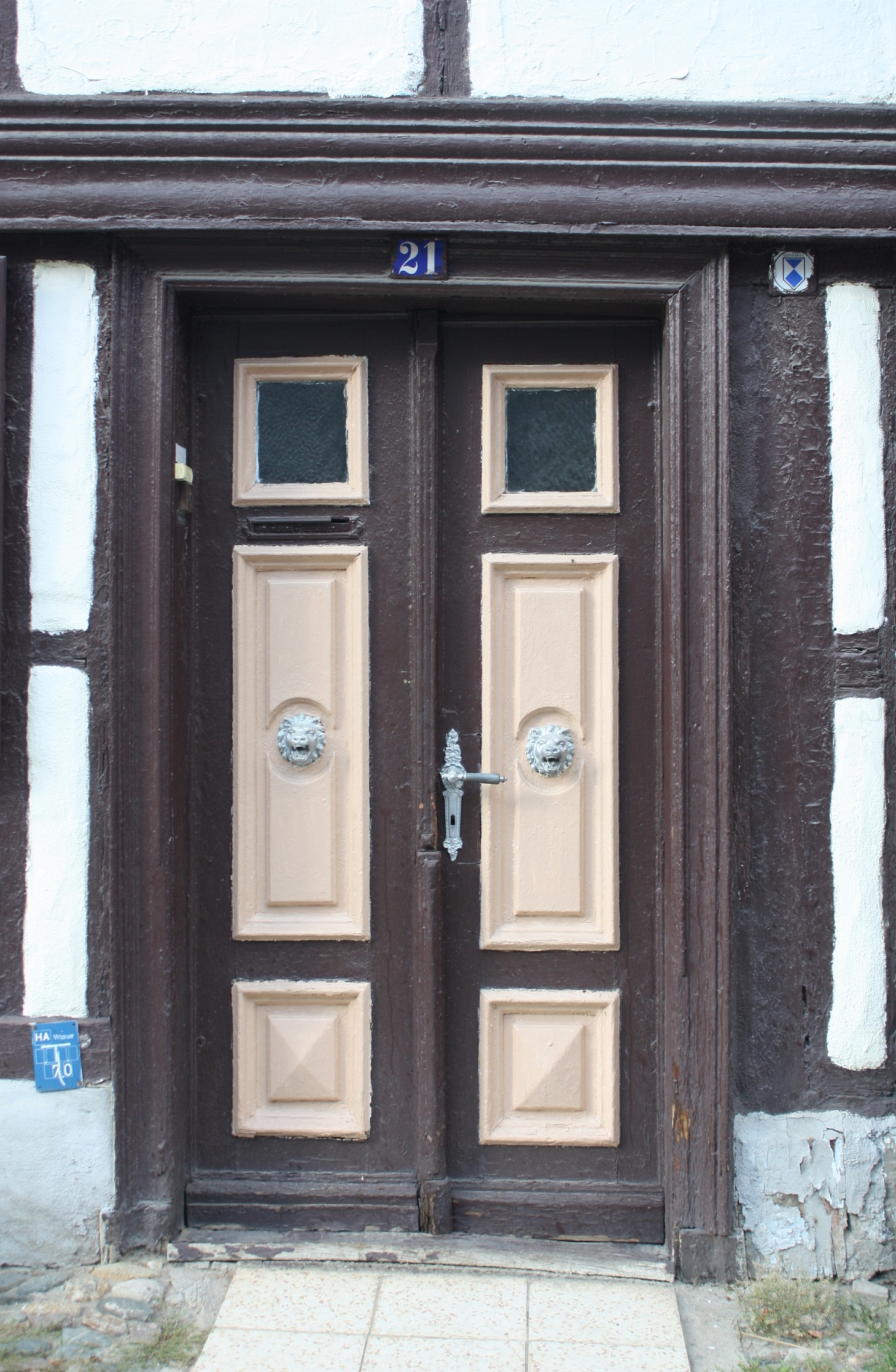 This is a photograph of an architectural monument.It is on the list of cultural monuments of Quedlinburg Augustinern 21 in Quedlinburg